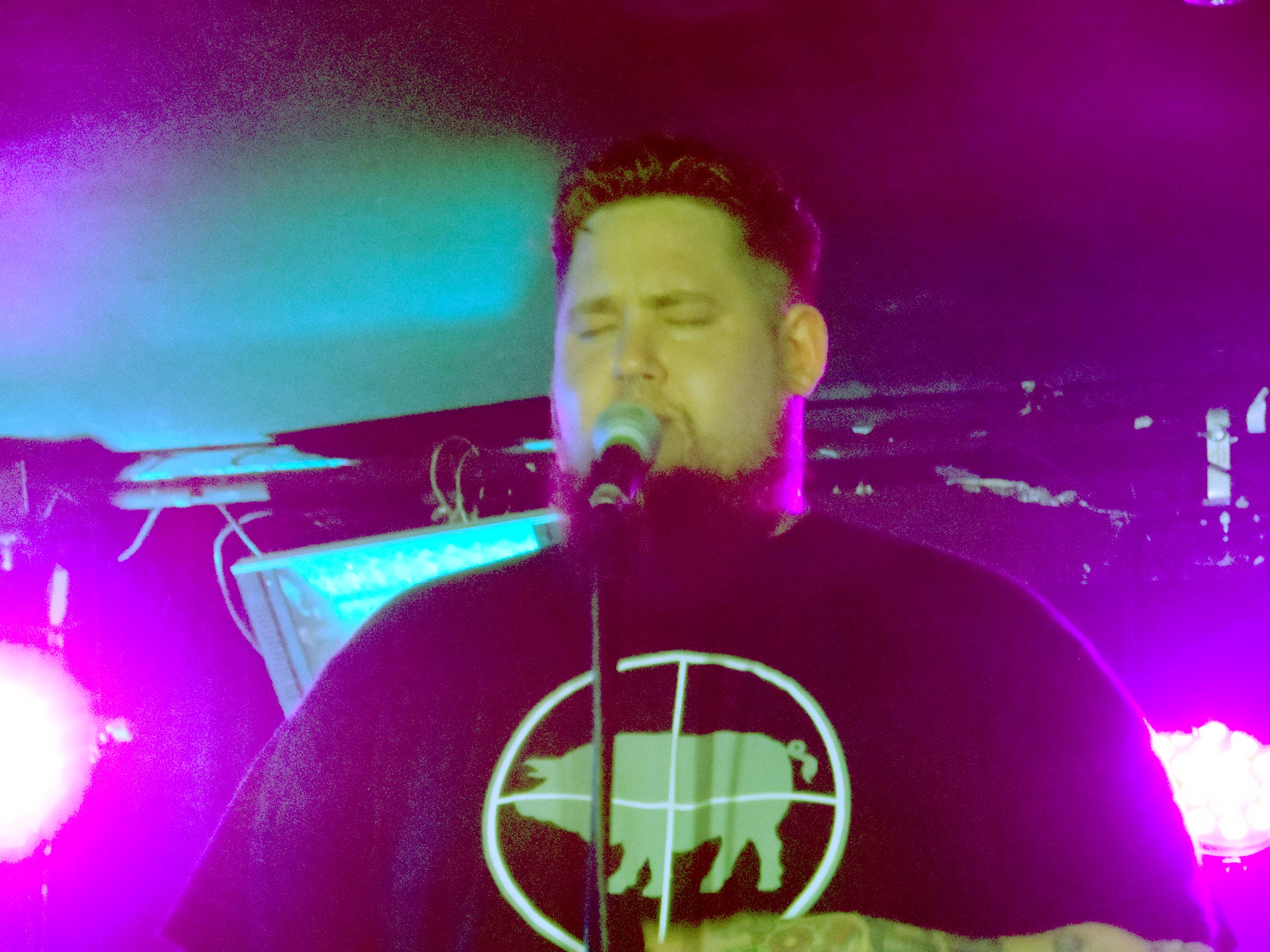 Rag'n'Bone Man